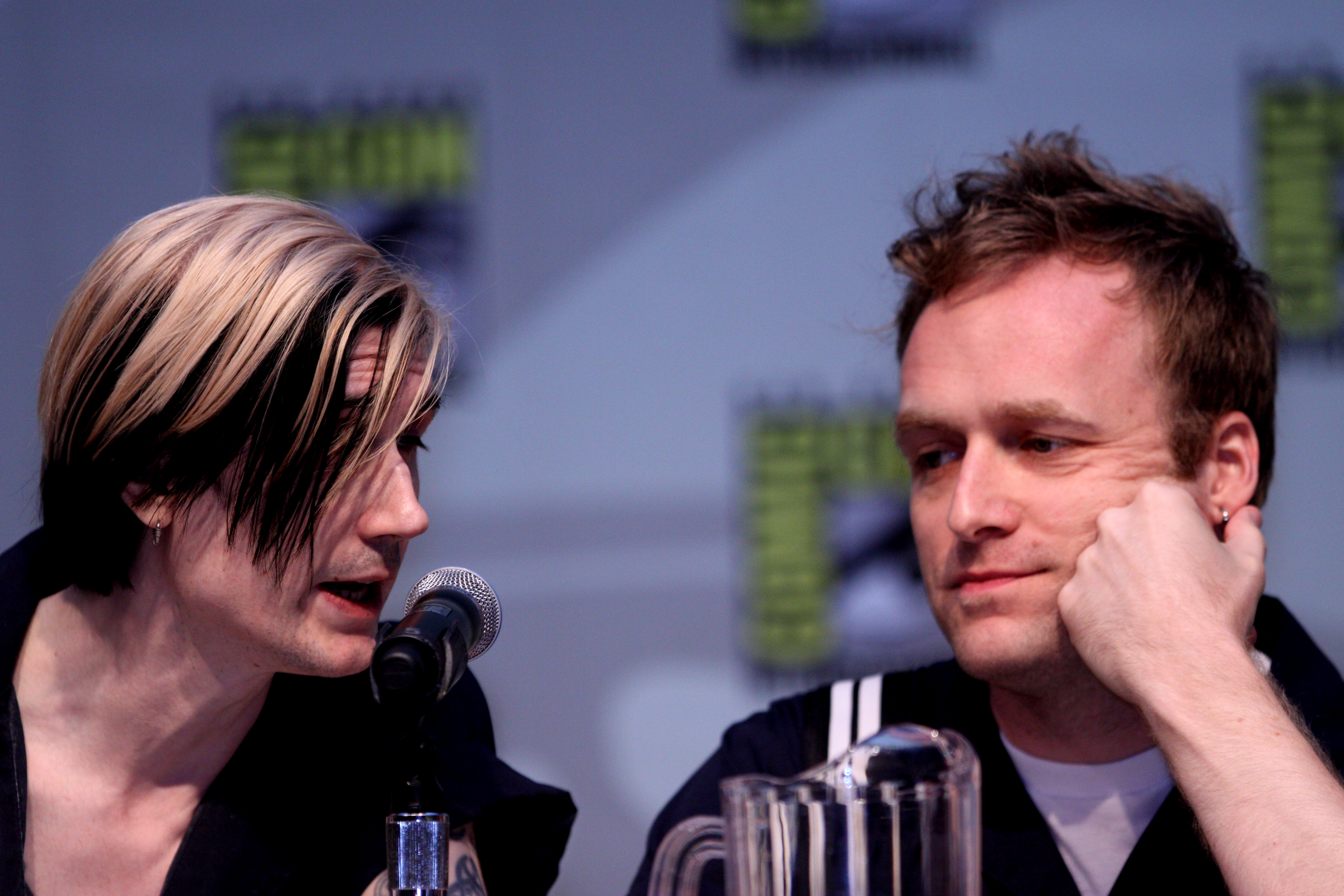 Doc Hammer and Christopher McCulloch, otherwise known as Jackson Publick, on the Adult Swim panel at the 2010 San Diego Comic Con in San Diego, California.